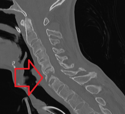 [1] This patient with well known ankylosing spondylitis had a fall. CT at the time demonstrated a bamboo spinal fracture though his fused cervical spine. 6 weeks later later no bony union had yet occurred and appearances were consistent with the development of a pseudoarthrosis. Ankylosing spondylitis